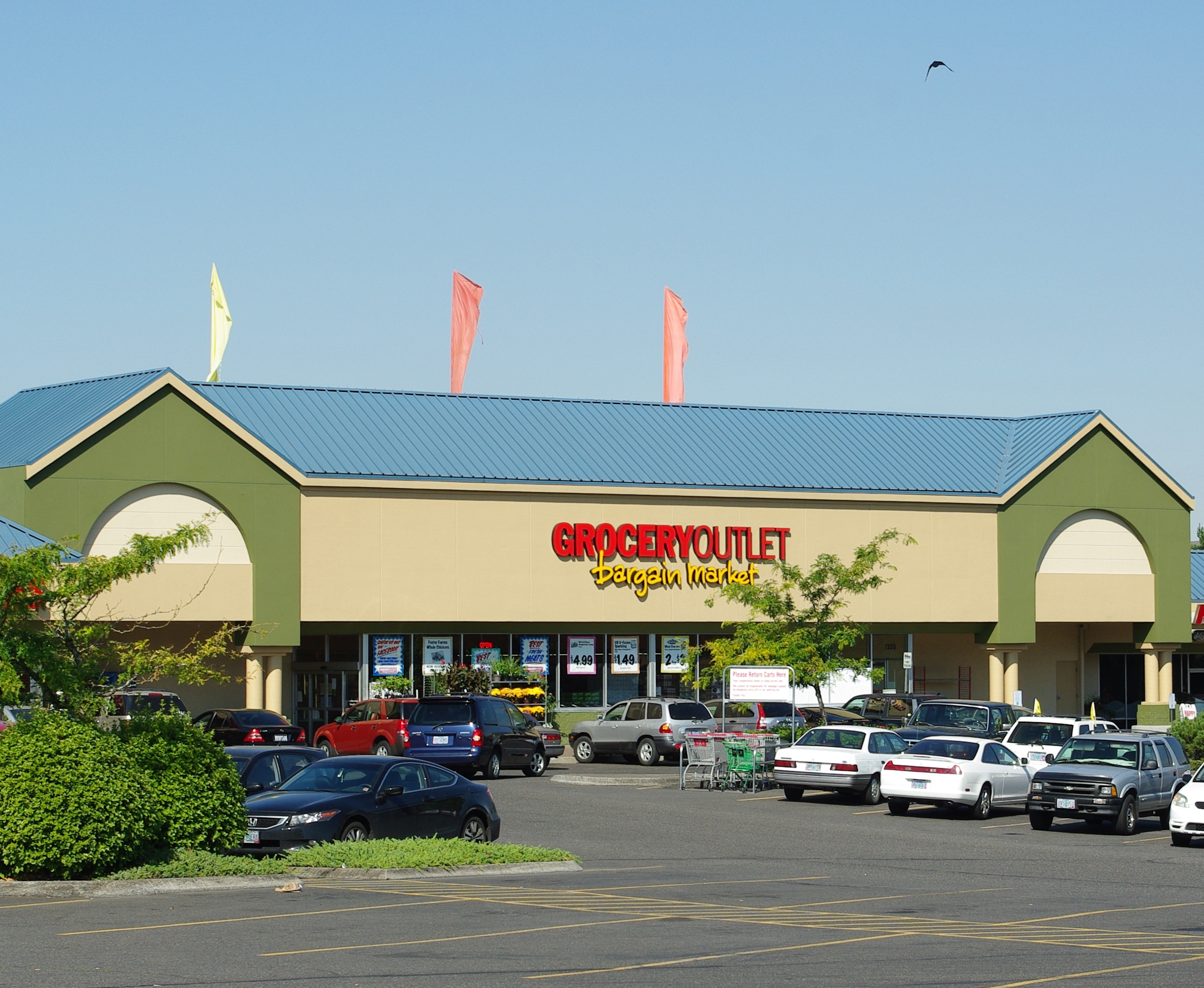 Grocery Outlet on 185th in Hillsboro, Oregon.